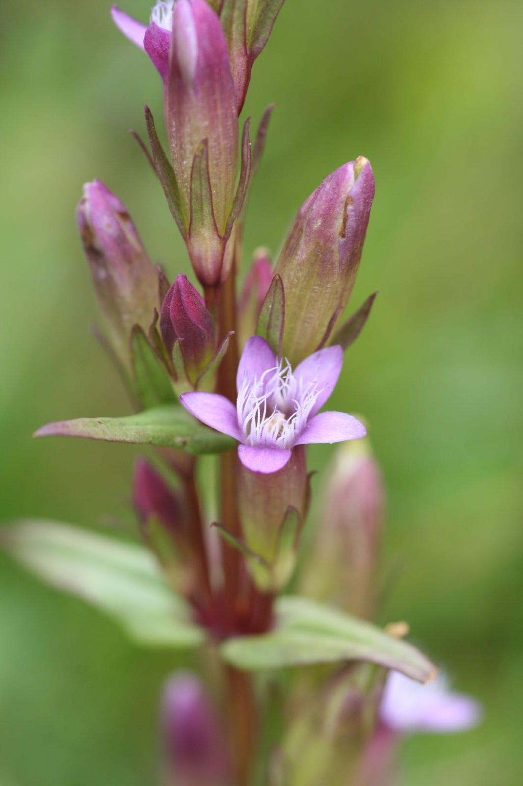 Autumn Gentian